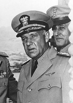 Vice Admiral John H. Towers in Pearl Harbor, HI, c1943.